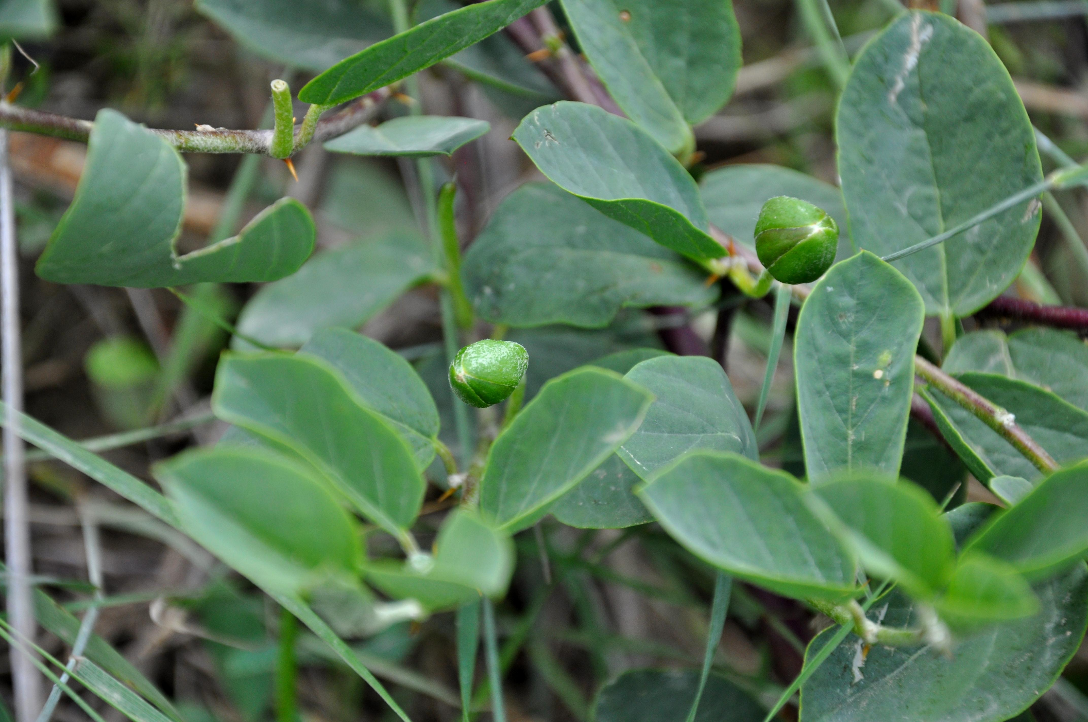 Caper bush, Shio-mgvime, Georgia